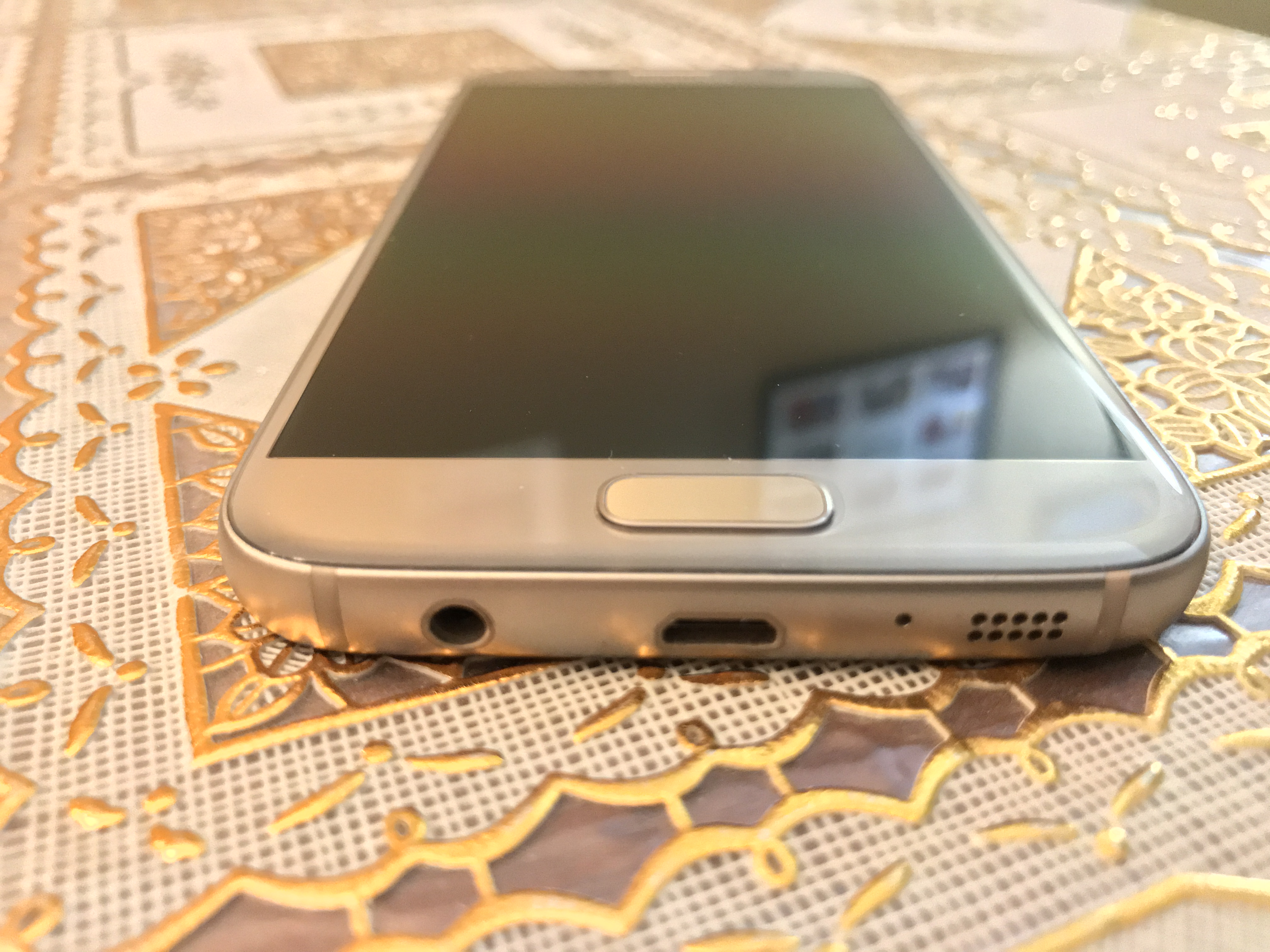 The bottom of a Gold Samsung Galaxy S7 SM-G930F showing the headphone jack, microUSB port and speaker grille